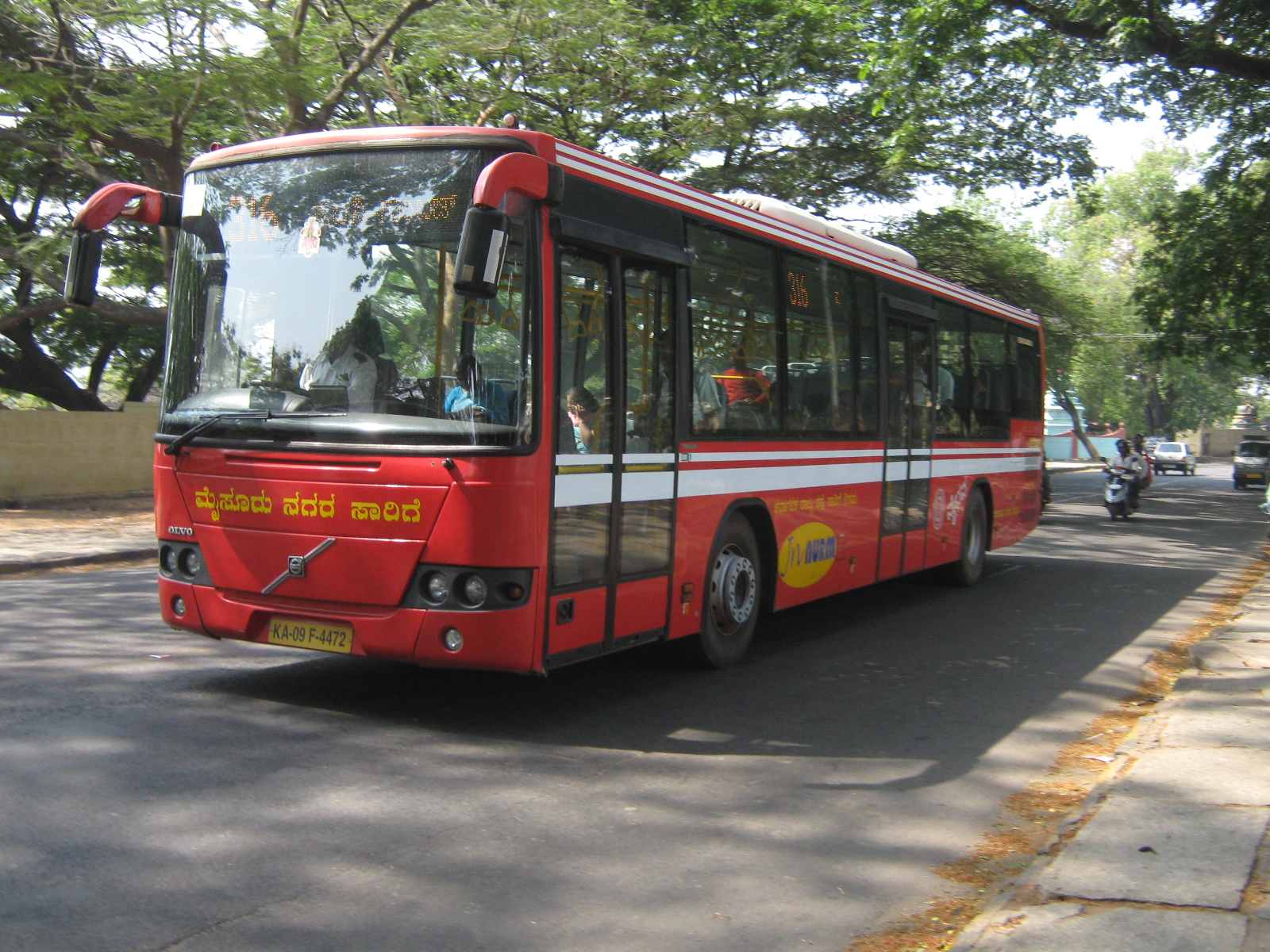 A Government Volvo A/C bus in Mysore, operated by Mysore city corporation.